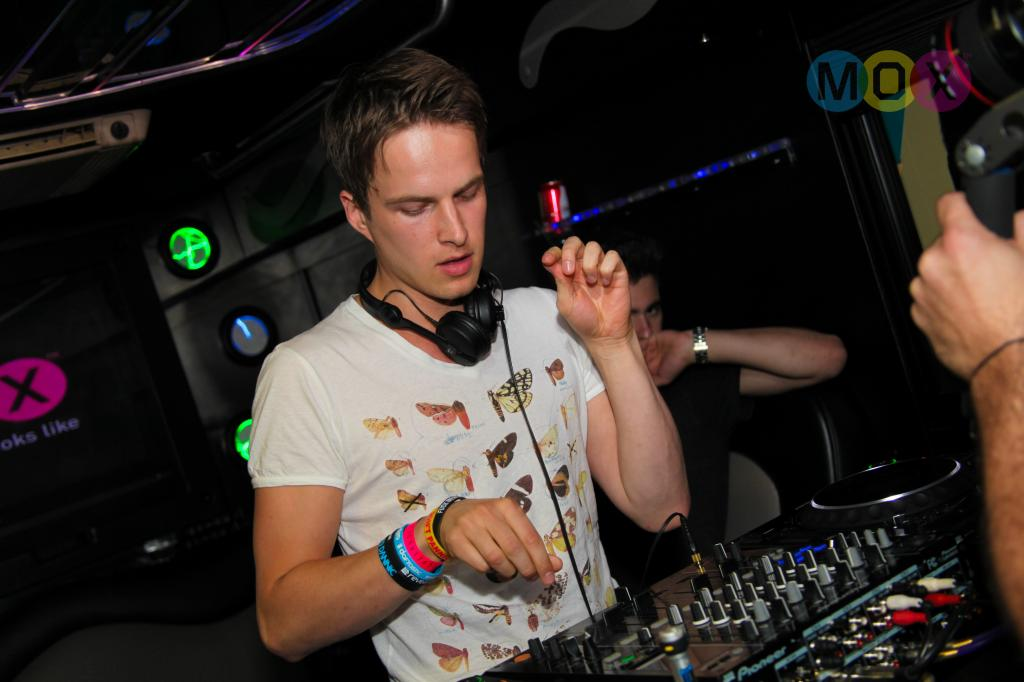 Dannic plays live at the Revealed Bus Party 2013